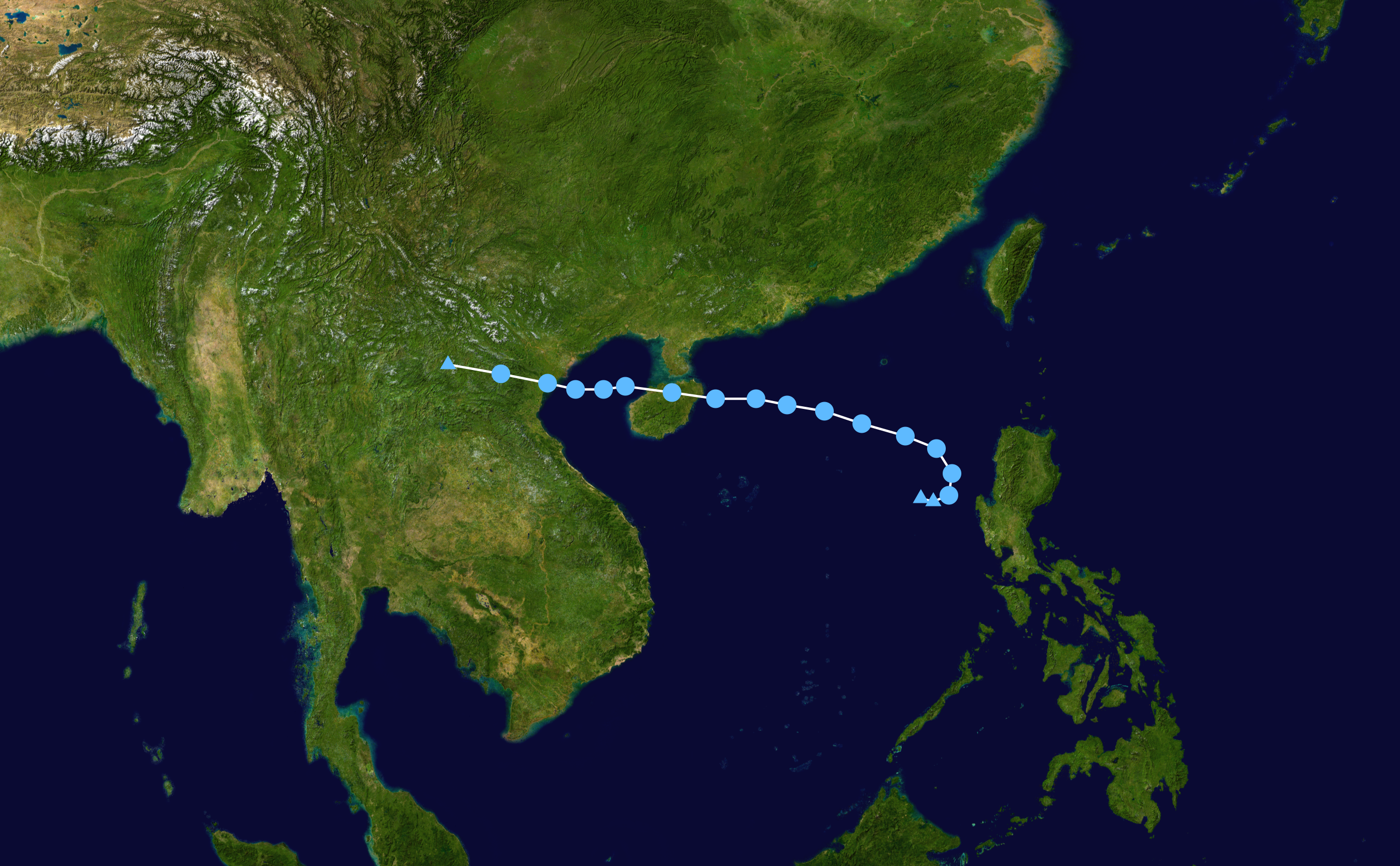 Track map of Tropical Storm Mujigae of the 2009 Pacific typhoon season. The points show the location of the storm at 6-hour intervals. The colour represents the storm's maximum sustained wind speeds as classified in the Saffir–Simpson scale (see below), and the shape of the data points represent the nature of the storm, according to the legend below. Saffir–Simpson scale Tropical depression≤38 mph≤62 km/h Category 3111–129 mph178–208 km/h Tropical storm39–73 mph63–118 km/h Category 4130–156 mph209–251 km/h Category 174–95 mph119–153 km/h Category 5≥157 mph≥252 km/h Category 296–110 mph154–177 km/h Unknown Storm type Tropical cyclone Subtropical cyclone Extratropical cyclone / Remnant low / Tropical disturbance / Monsoon depression